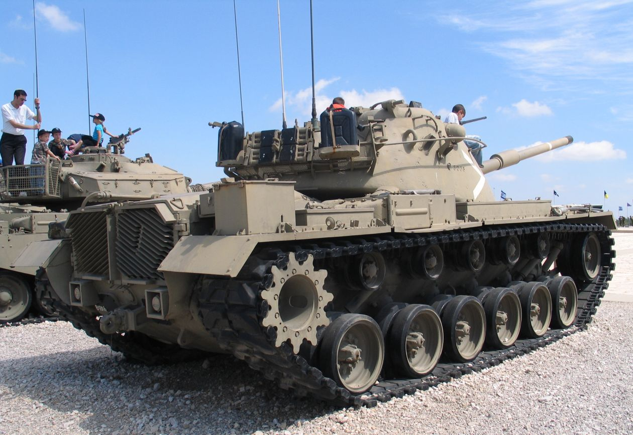 Israeli upgraded M48 Patton tank in Yad la-Shiryon Museum, Israel.